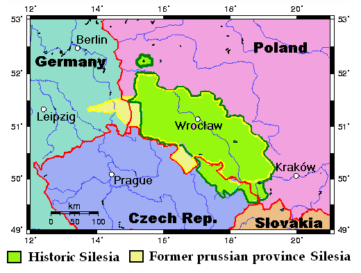 + legend and repainted